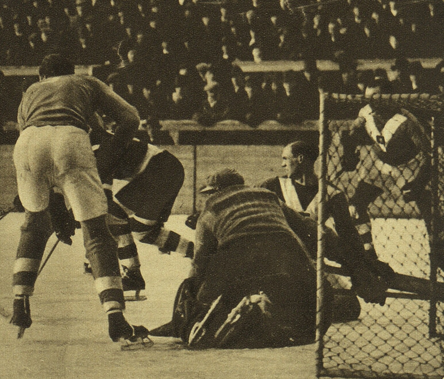 Ice hockey match Germany-Belgium at World Championship 1933 in Prague